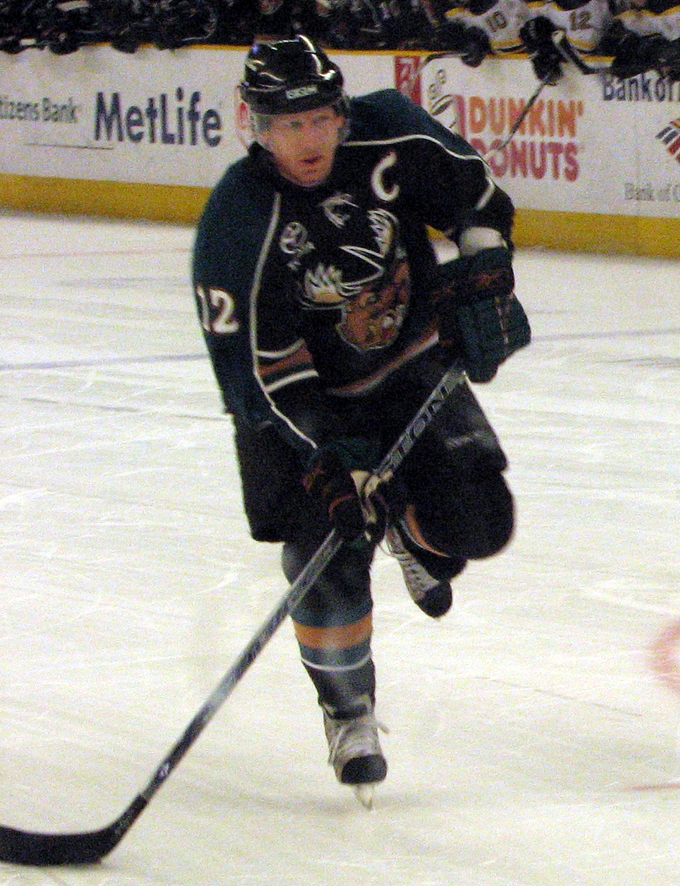 Manitoba Moose captain Mike Keane in a shootout against the Providence Bruins in 2009.